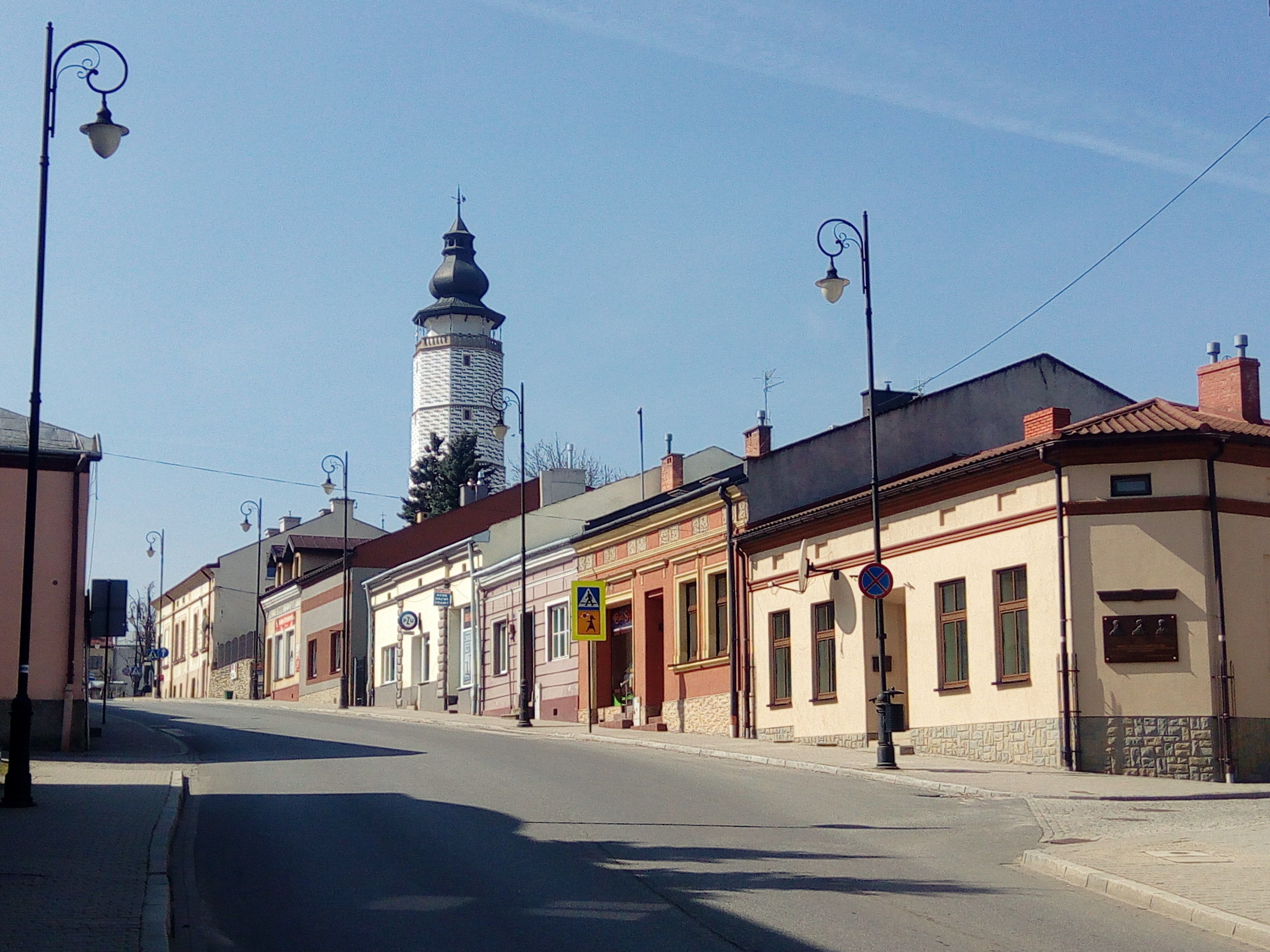 Grodzka Street in Biecz, southern Poland.